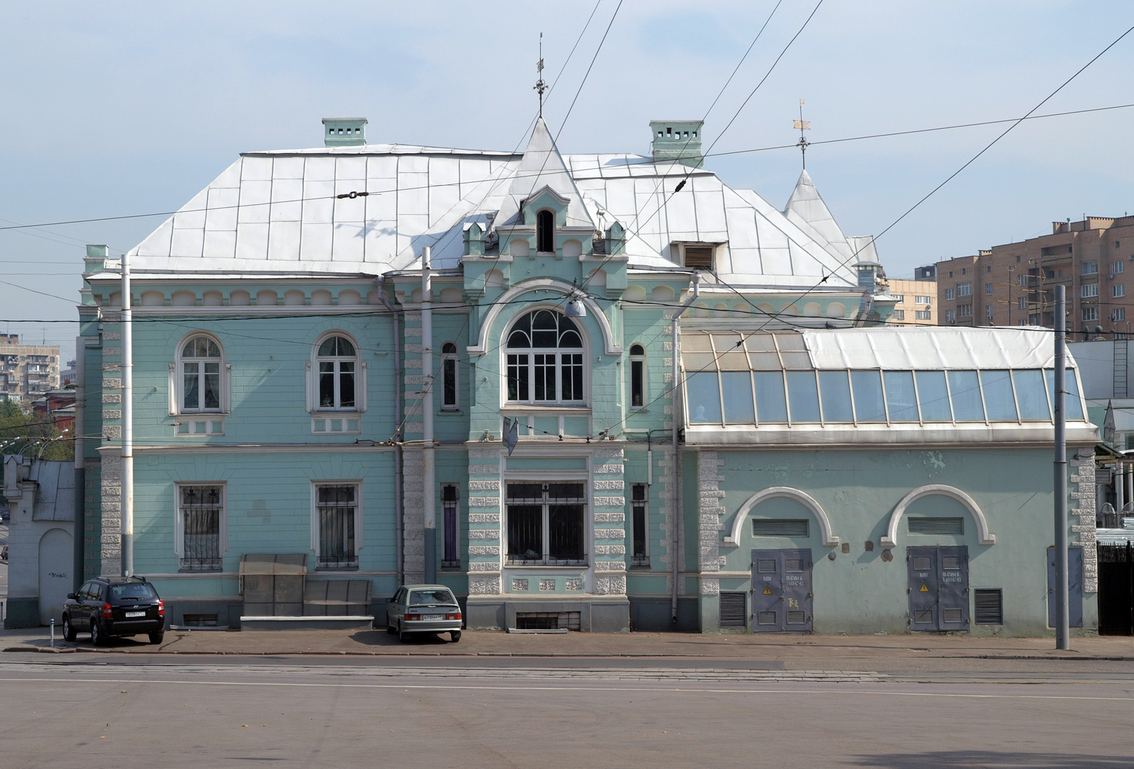 4, Durova St., Moscow - the older part of Durov's Animal Theatre. Built in 1894 by August Weber, used by the theatre since 1912.